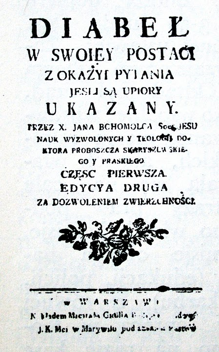 "Devil as it is" - the book by Jan Bohomolec, 1777. National Library, Warsaw.